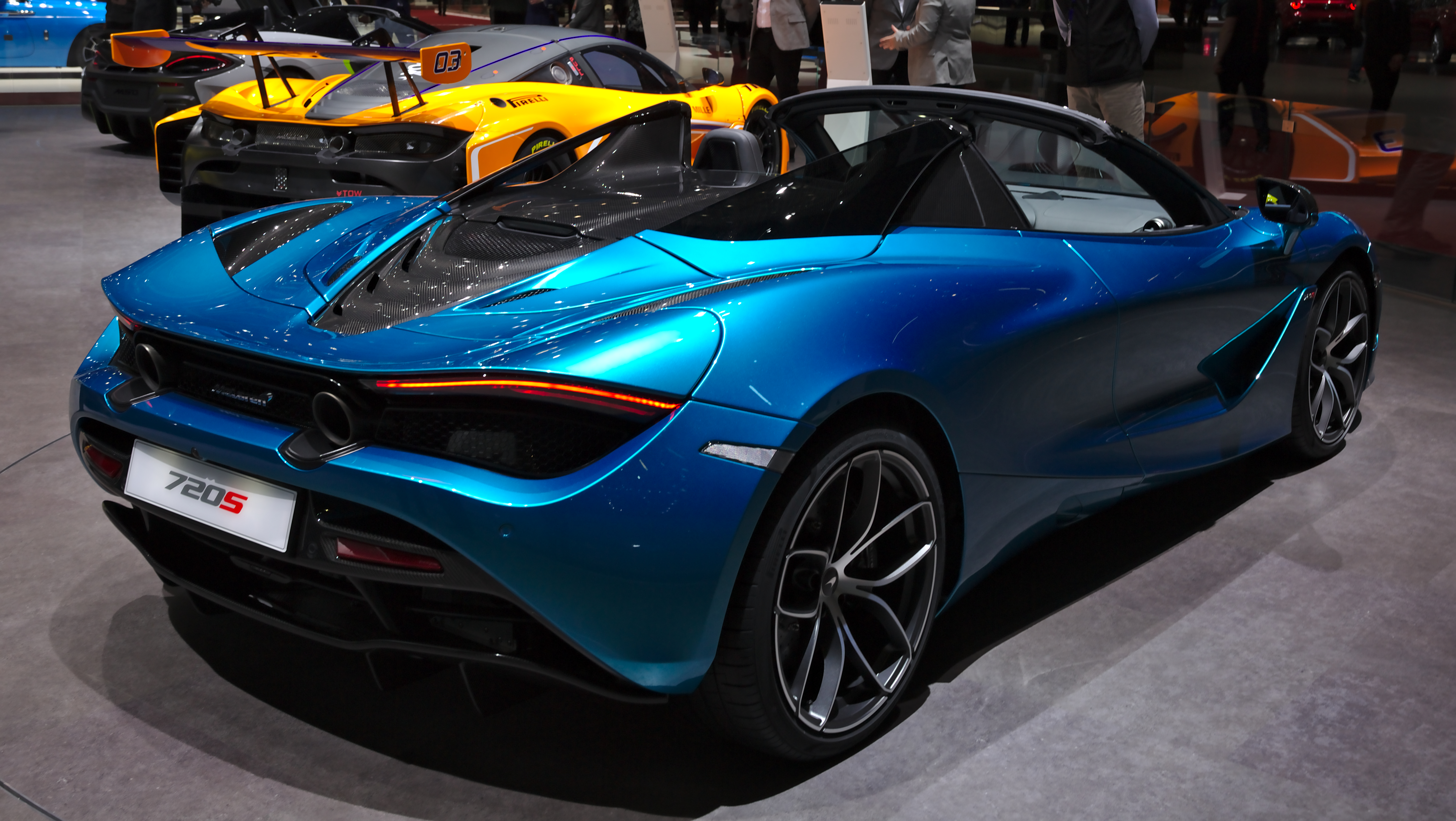 McLaren 720S Spider at Geneva Motor Show 2019